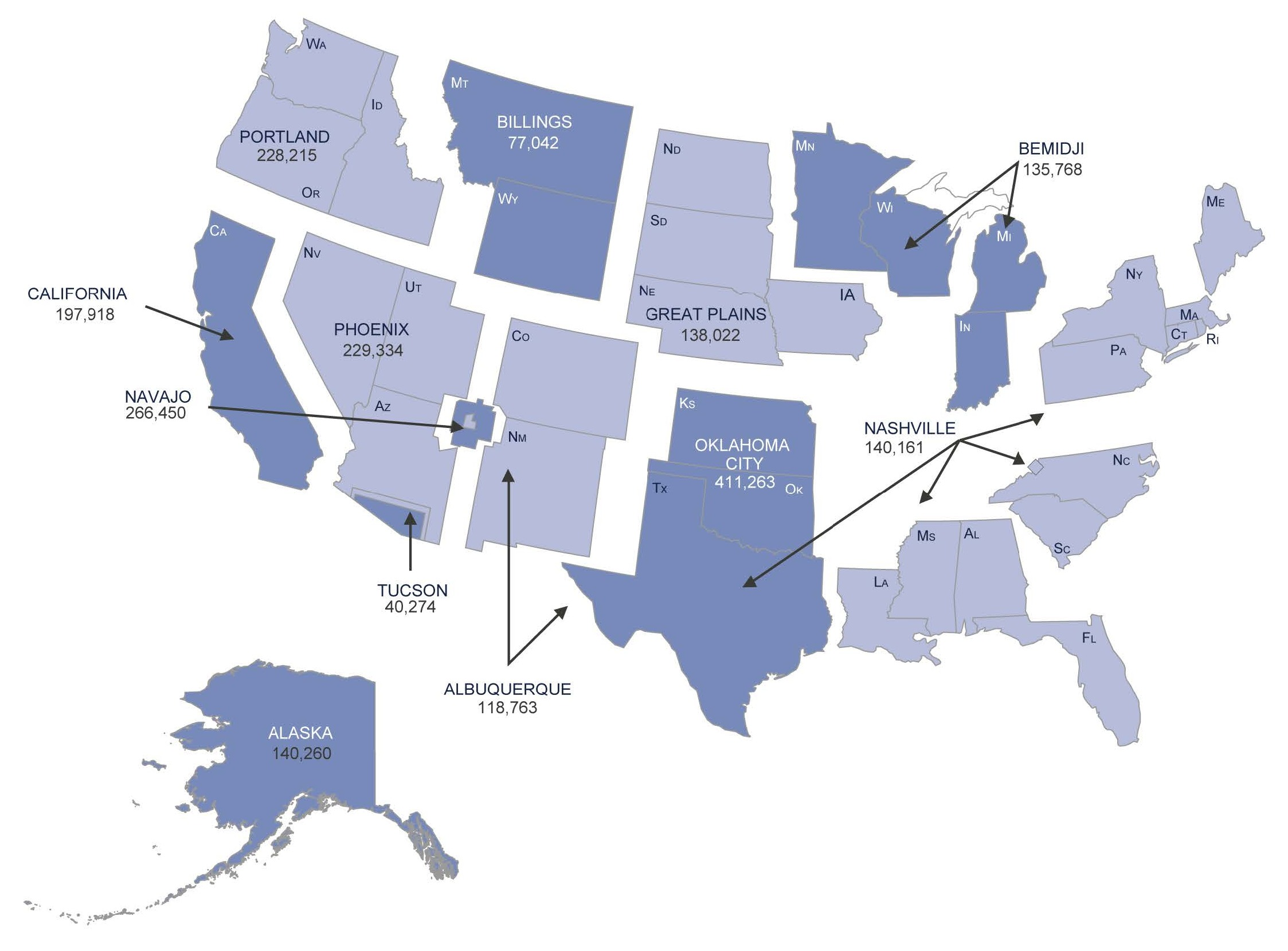 This image is excerpted from a U.S. GAO report: INDIAN HEALTH SERVICE: Actions Needed to Improve Oversight of Quality of Care Note: The Albuquerque, Nashville, and Oklahoma City area offices oversee facilities in Texas. The Alaska, California, and Tucson areas do not have any federally operated IHS facilities.